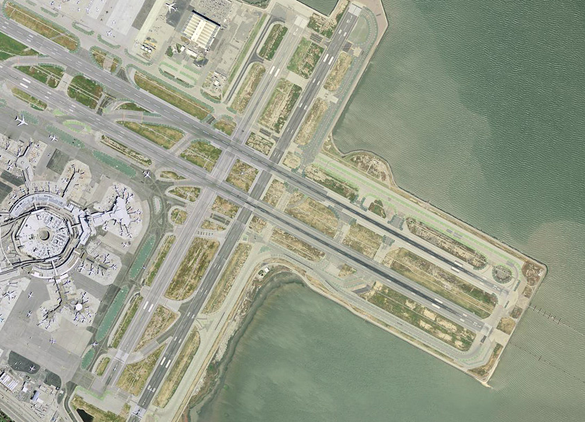 Satellite view San Francisco International Airport (2011)